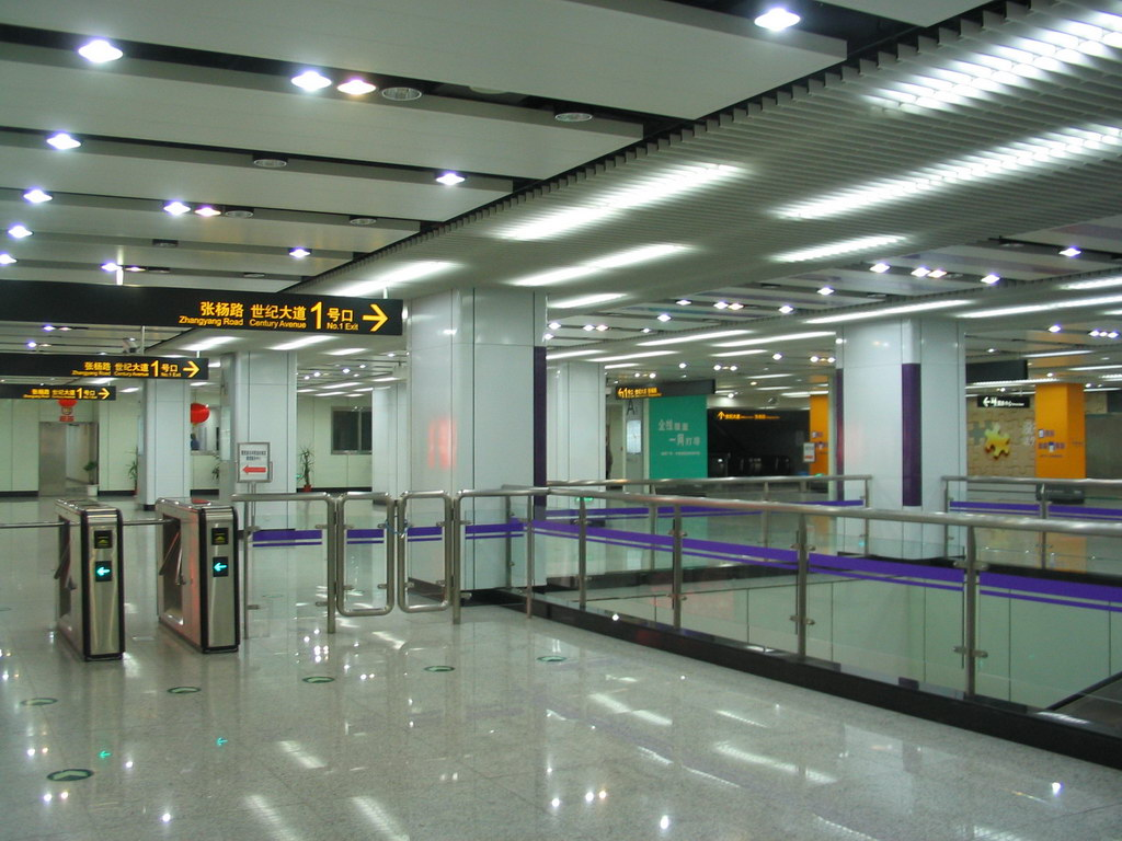 世紀大道站-A區-4號線大堂 Line 4 Concourse of Shiji Avenue Station